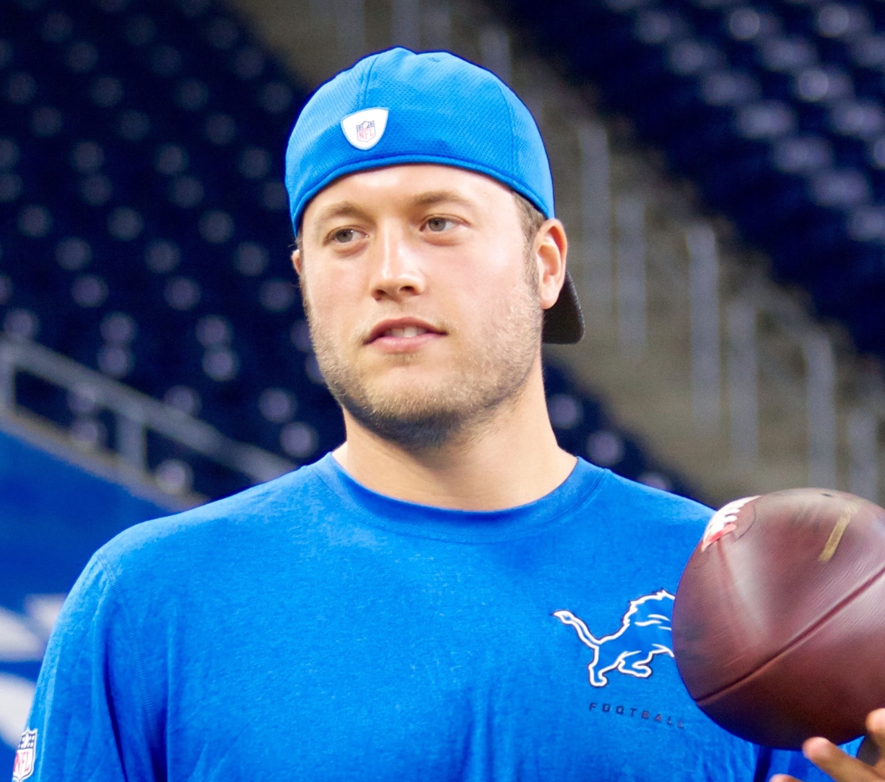 Detroit Lions quarterback, Matt Stafford, participating in charity event, Play Like a Lion Experience 2016.